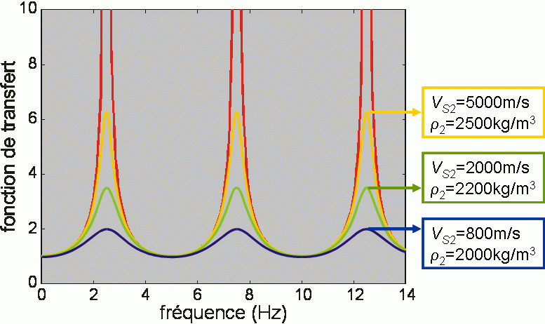 Amplification of a plane seismic (SH) wave in a horizontal layer: transfer function for various velocity values in the bedrock.